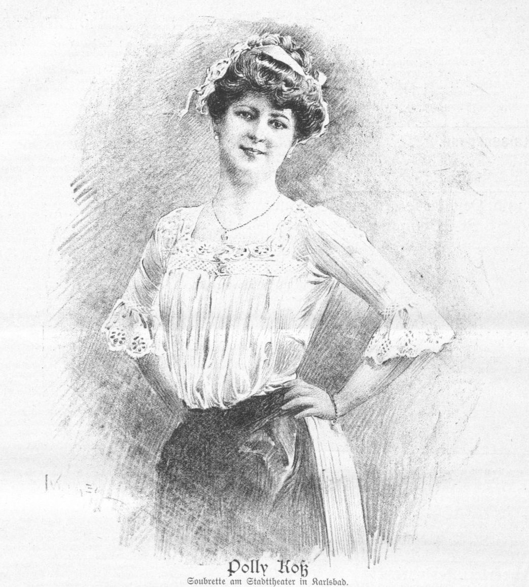 Portrait of Polly Koss (1880-1943), Austrian actress